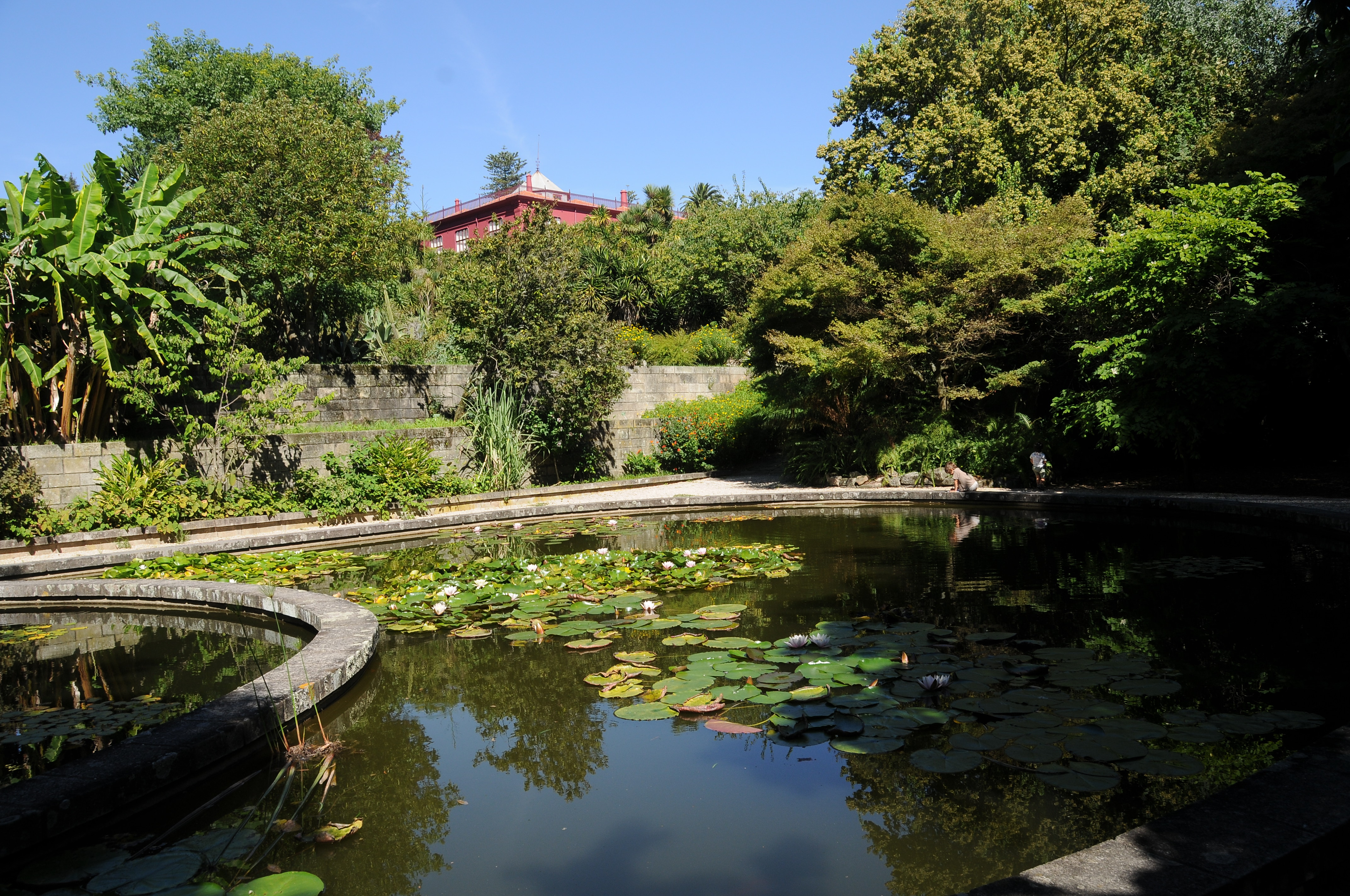 Botanical Garden of Porto or House of the Andresen, in Porto, Portugal